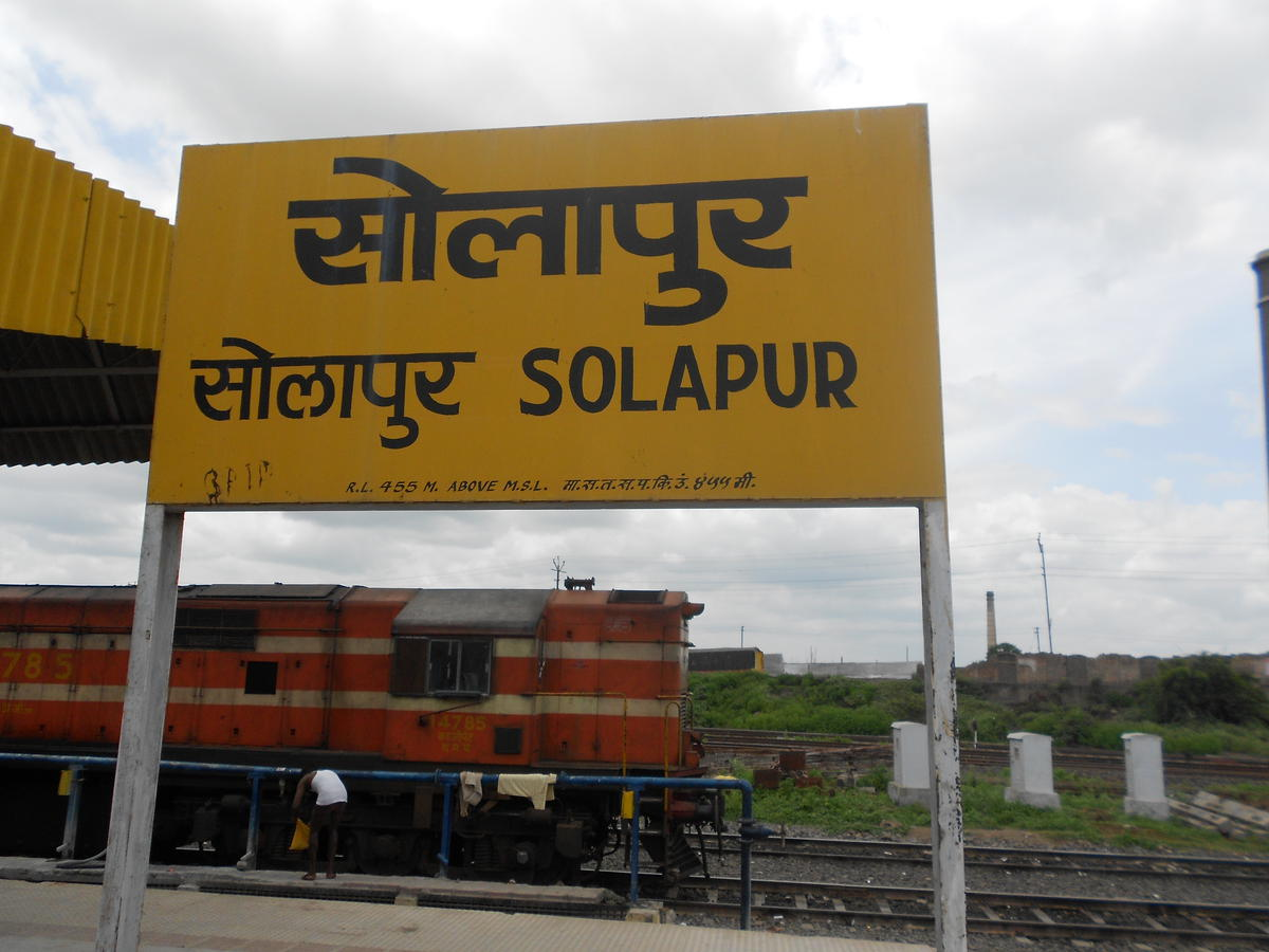 Solapur railway station